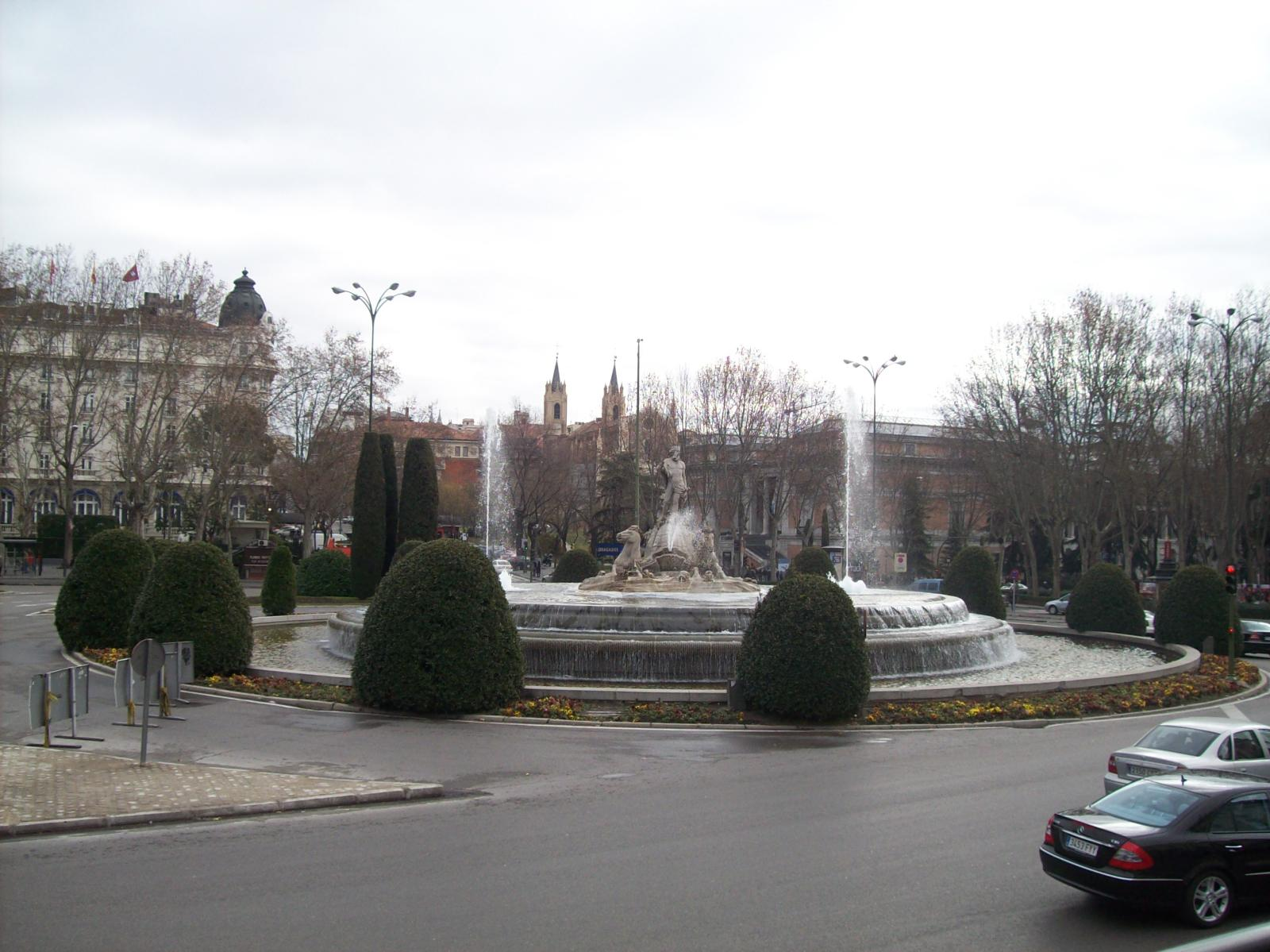 Fountain of Neptune in Madrid (Spain).